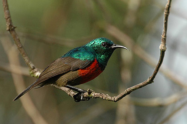 Uganda Northern Double-collared Sunbird (Nectarinia preussi), Buhoma, Bwindi Impenetrable National Park, Uganda (see here)